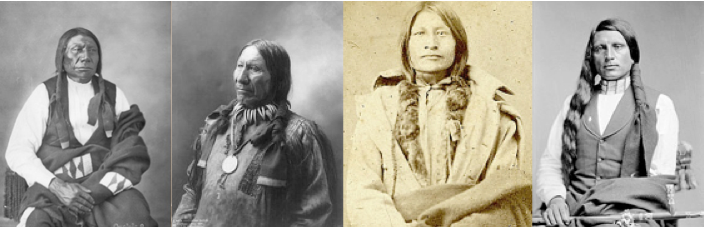 Four Wagluhe leaders in composite. Left to right: Blue Horse, American Horse, Three Bears and Red Shirt.